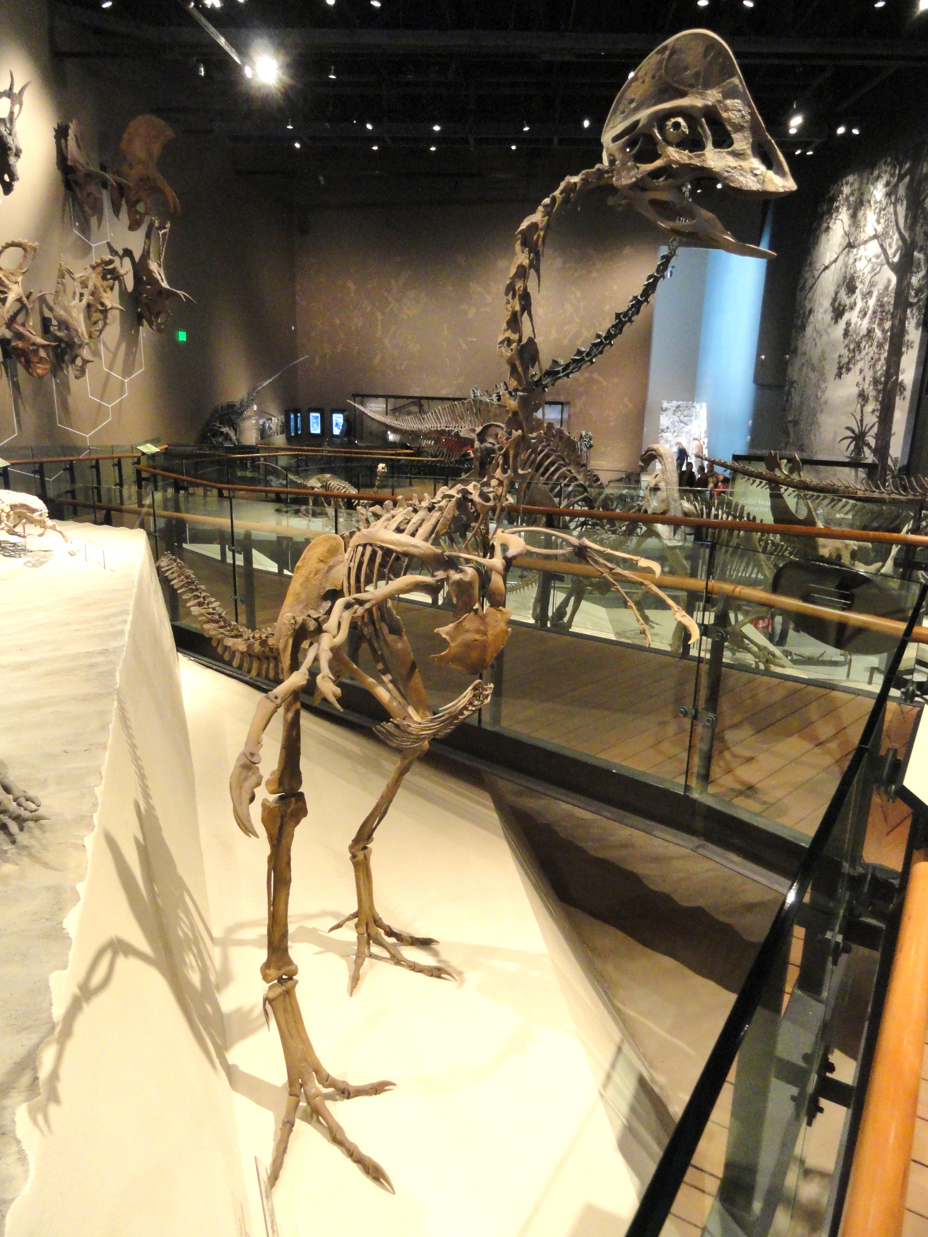 Fossil specimen in the Natural History Museum of Utah, Salt Lake City, Utah, USA.